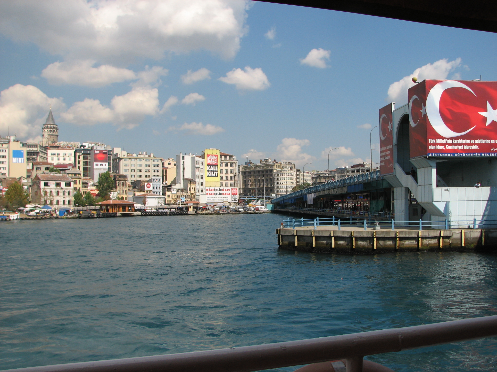 Karakoy Istanbul